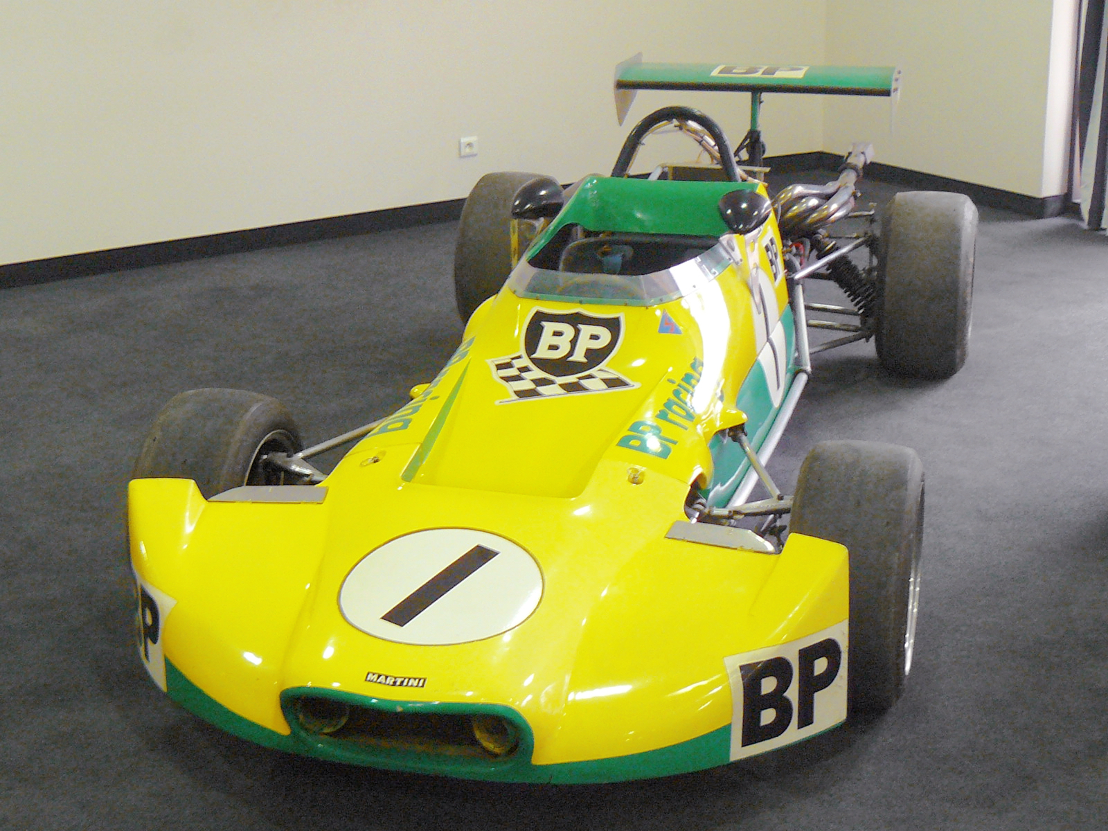 Martini Formula 3 car of Jacques Laffite